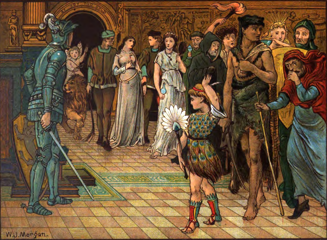 The Masque